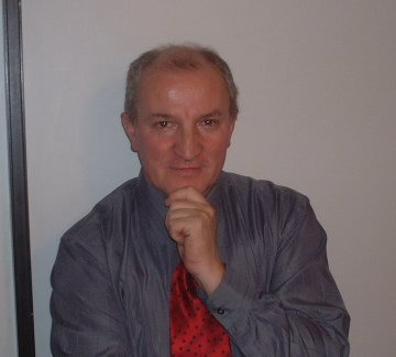 Serbian political scientist Miroljub Jevtić (b. 1955)